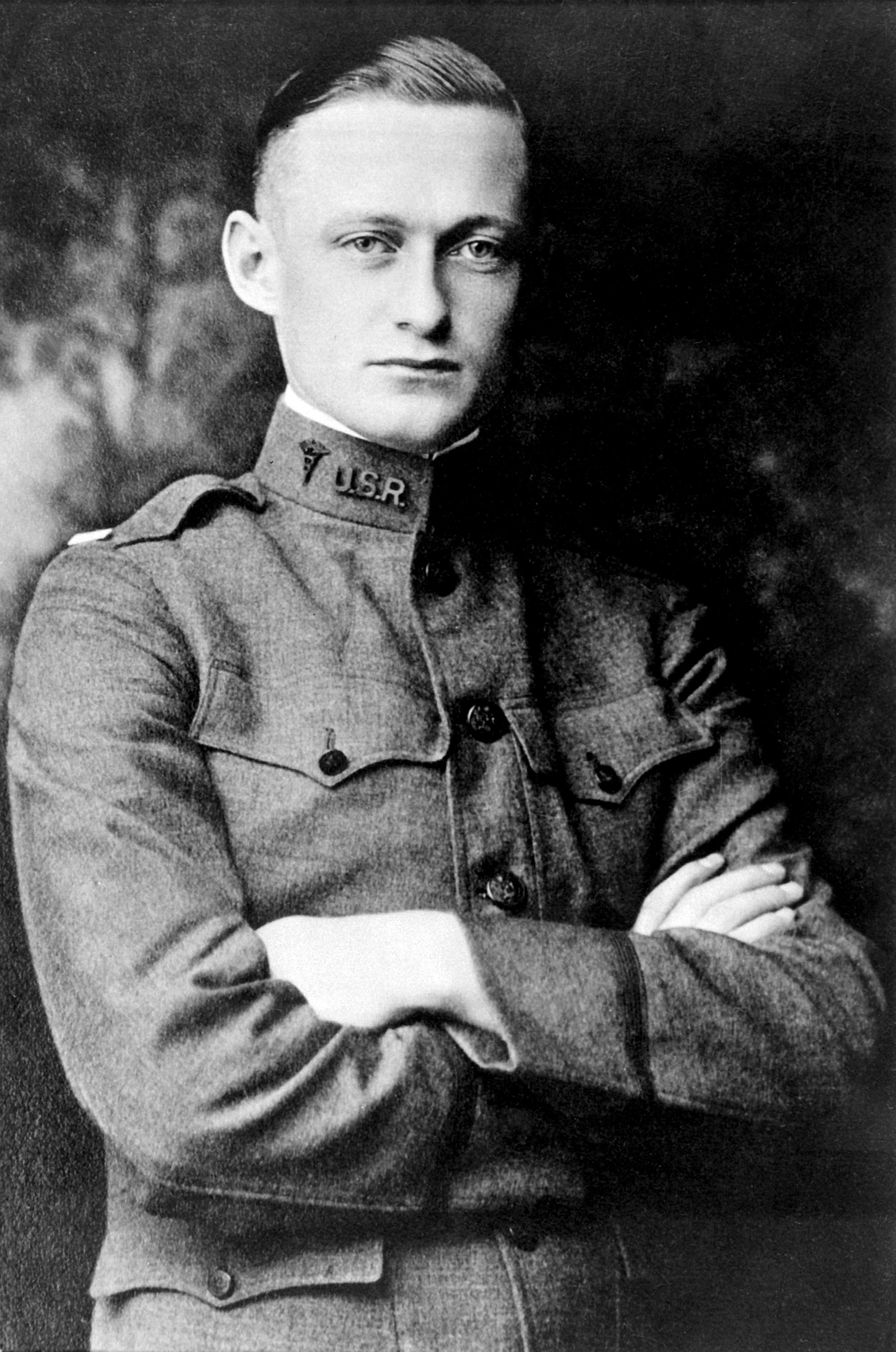 "Formal portrait of LT William T. Fitzsimons. Fitzsimons Army Medical Center is named after LT Fitzsimons who was the first officer and physician to die in World War I." HA-SN-99-00484. Resized version of the original downloaded from the source listed.